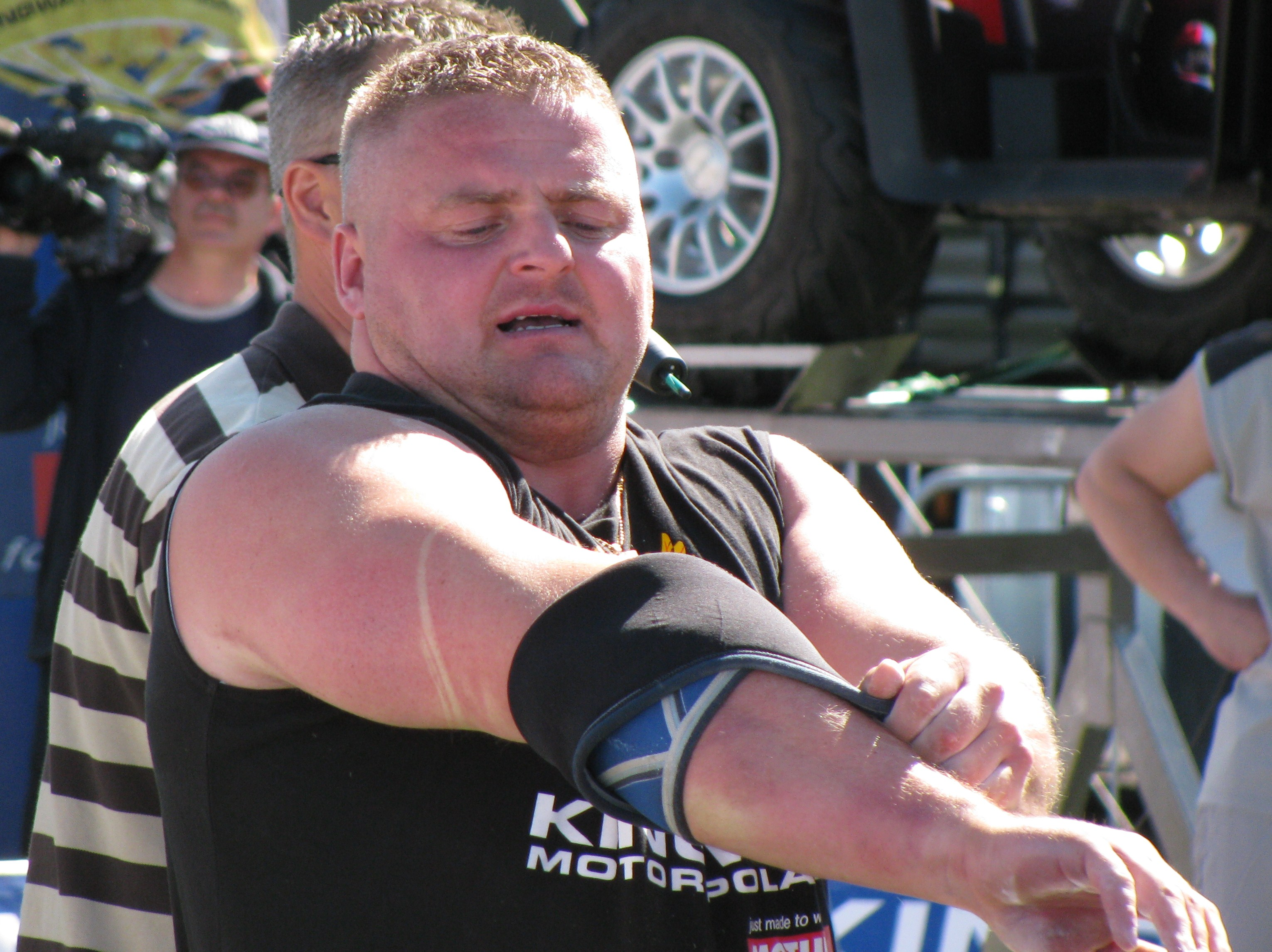 Slawomir Toczek - a strength athlete from Poland.